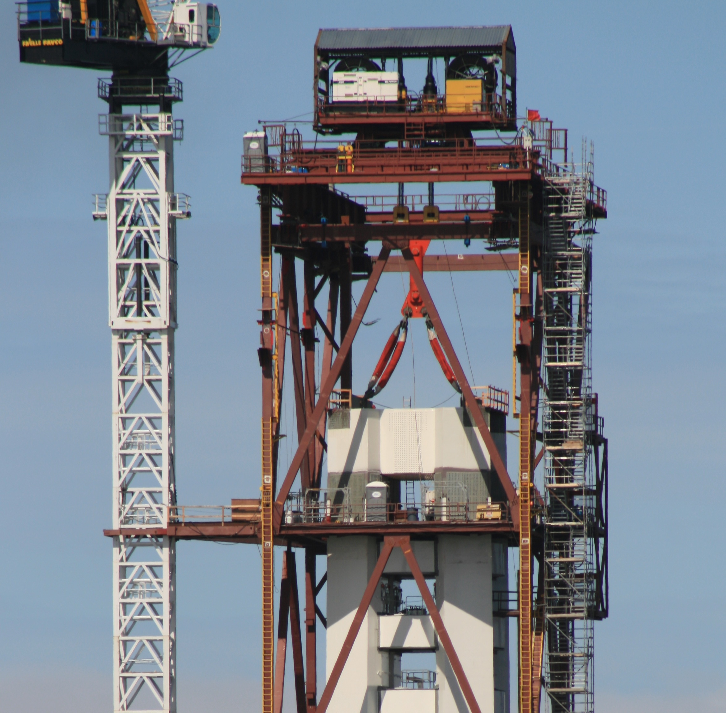 Eastern span replacement of the San Francisco-Oakland Bay Bridge, top of tower structural element in place